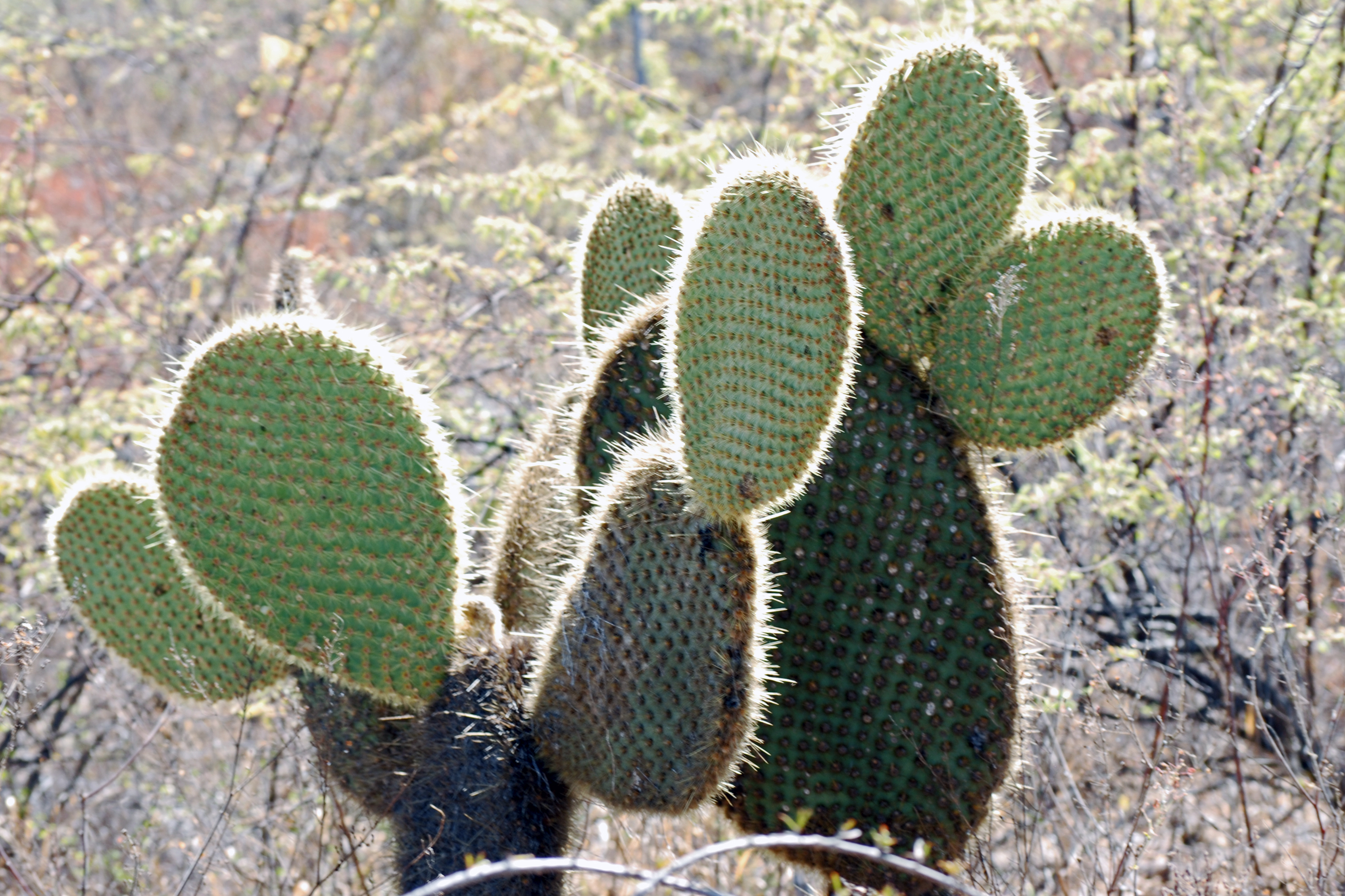 Caleta Targus / Isabela Island / Hike to Darwin Volcano / Giant Opuntia Cactus